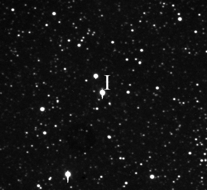 2 minute exposure of asteroid 7 Iris (blooming star to the lower left of I) with a 24" telescope. Iris is apparent magnitude 10.1 in this image taken at 2009-10-01 02:30 UT. (The moon was 90% full and 53 degrees away. Astronomical twilight ended at 02:15 UT and sunset was at 01:00 UT.) The star just to the upper left of Iris is TYC 6275-527-1 at magnitude 11.2. The star blooming to the far lower left of Iris is TYC 6275-164-1 at magnitude 10.0.